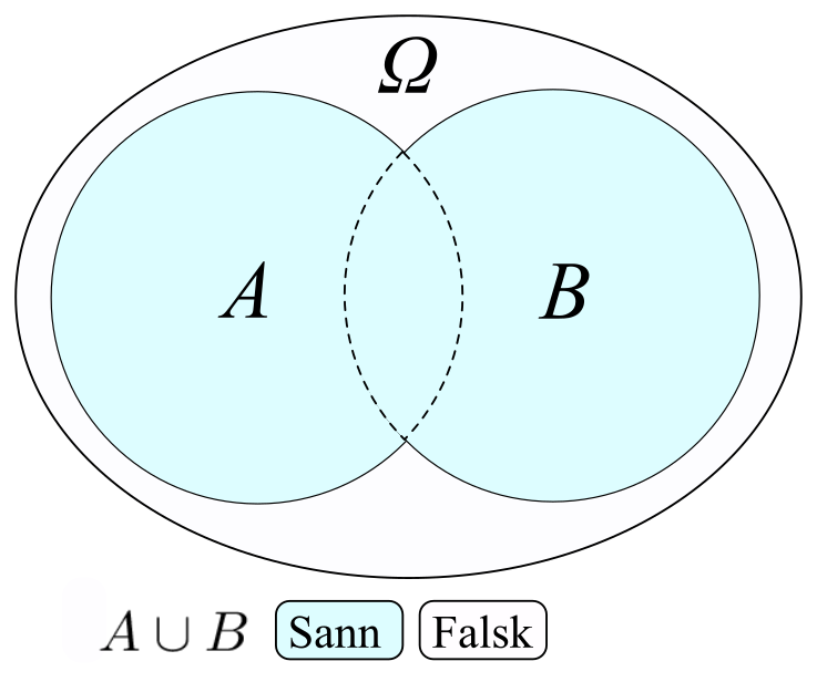 union of sets